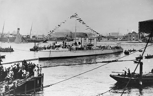 The Greek Destroyer 'Thyella' after being launched at Yarrow shipyard, London.